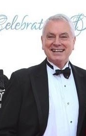 Pierre Dulaine at the Gene Kelly Awards